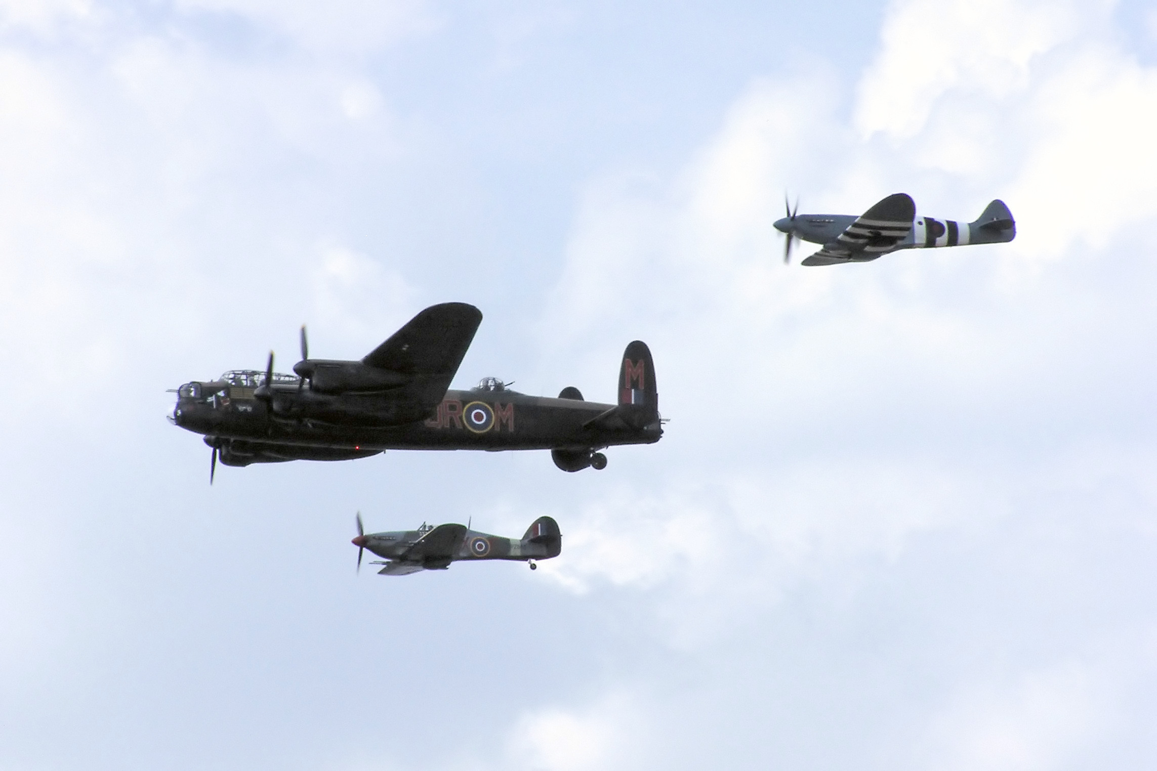 (left to right) Avro Lancaster, Hawker Hurricane and Supermarine Spitfire from the Battle of Britain Memorial Flight take part in a flypast at the 2006 Farnborough International Airshow.